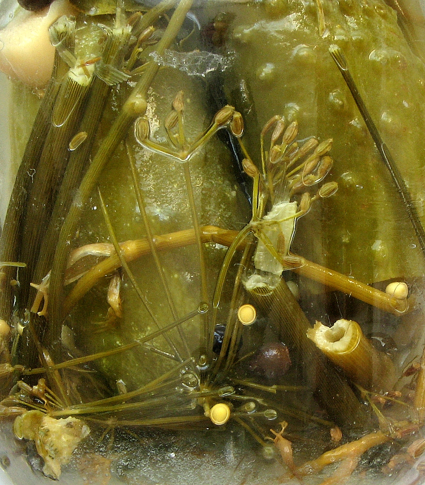 Pickled cucumber (Cucumis sativus)